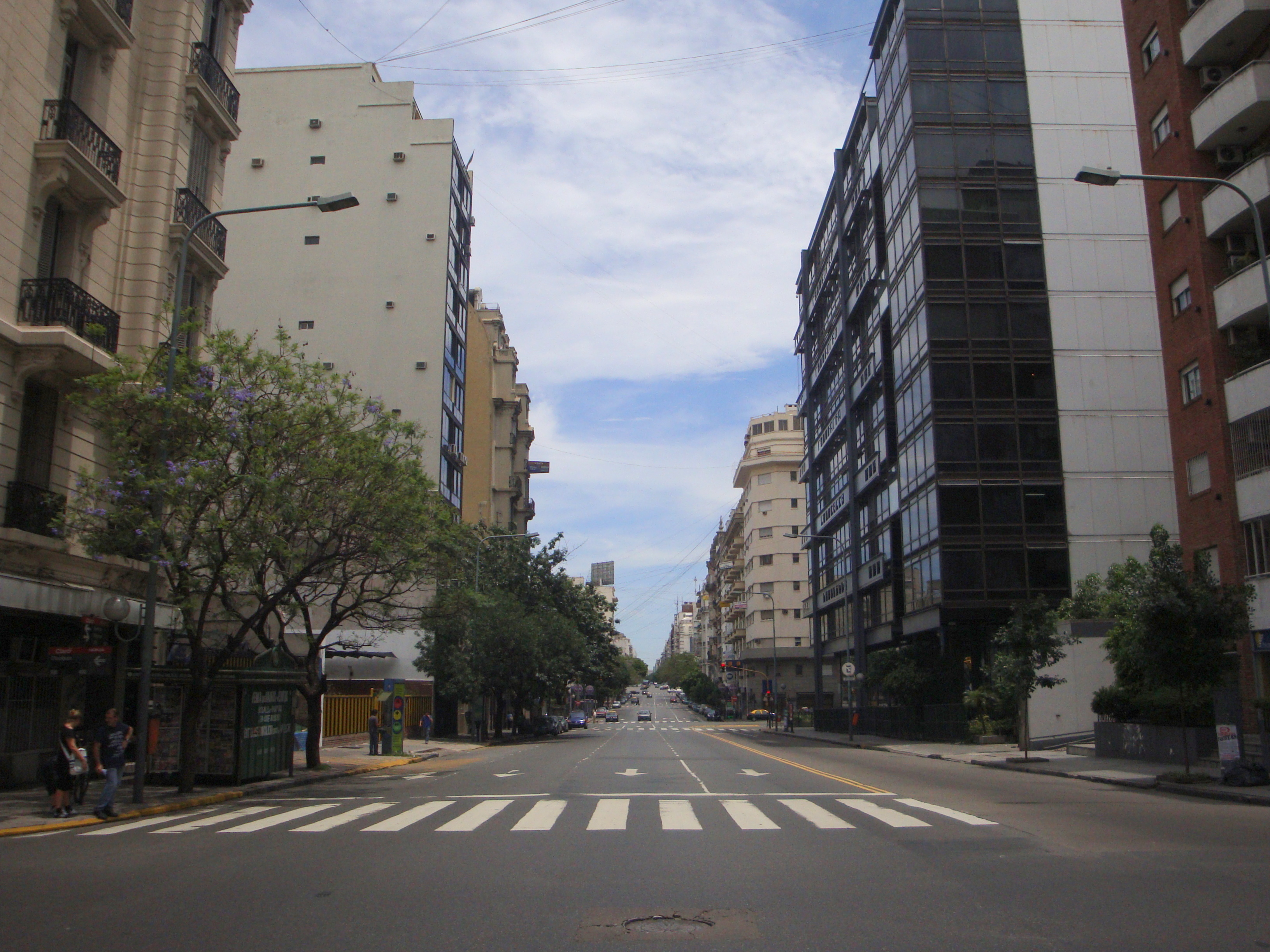 Belgrano Avenue, Buenos Aires